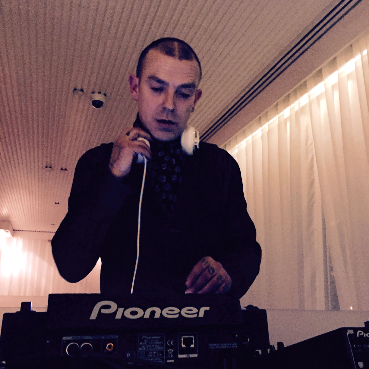 Adamski (Sanderson Hotel, London).